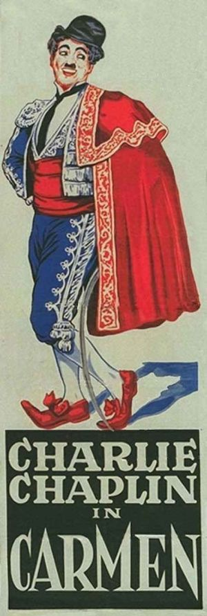 Poster for Burlesque on Carmen (1915).